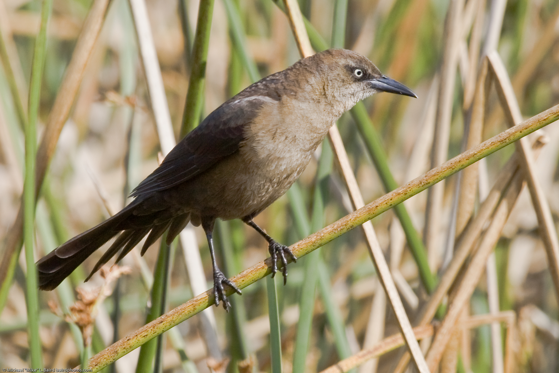 This female Great-tailed Grackle (Quiscalus mexicanus) is a large icterid blackbird as seen in the Cloisters City Park pond in Morro Bay, CA 15 March 2008 - Photo by Michael "Mike" L. Baird , Canon 1D Mark III w/ 100-400mm IS lens handheld.